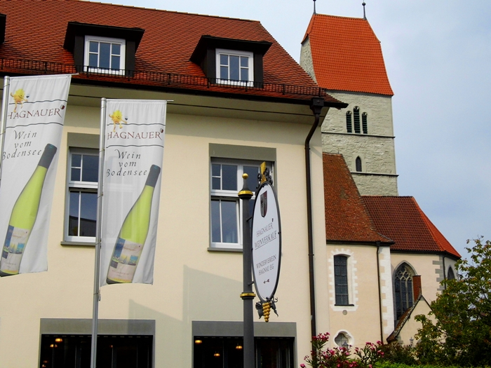 Hagnau, Germany: Sales office building of Winzerverein Hagnau, Strandbadstraße 7